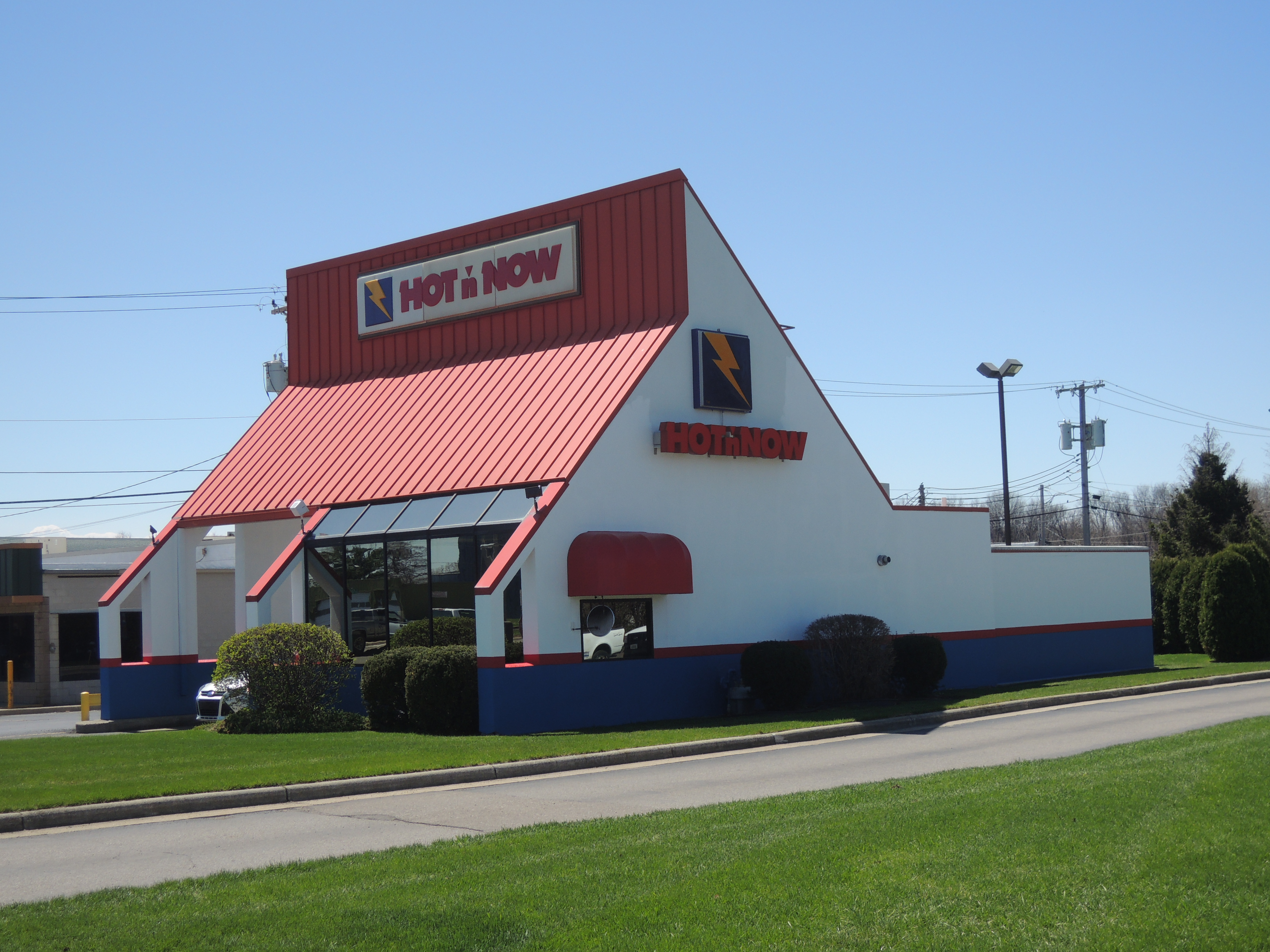 'Iconic' Hot n Now architecture.